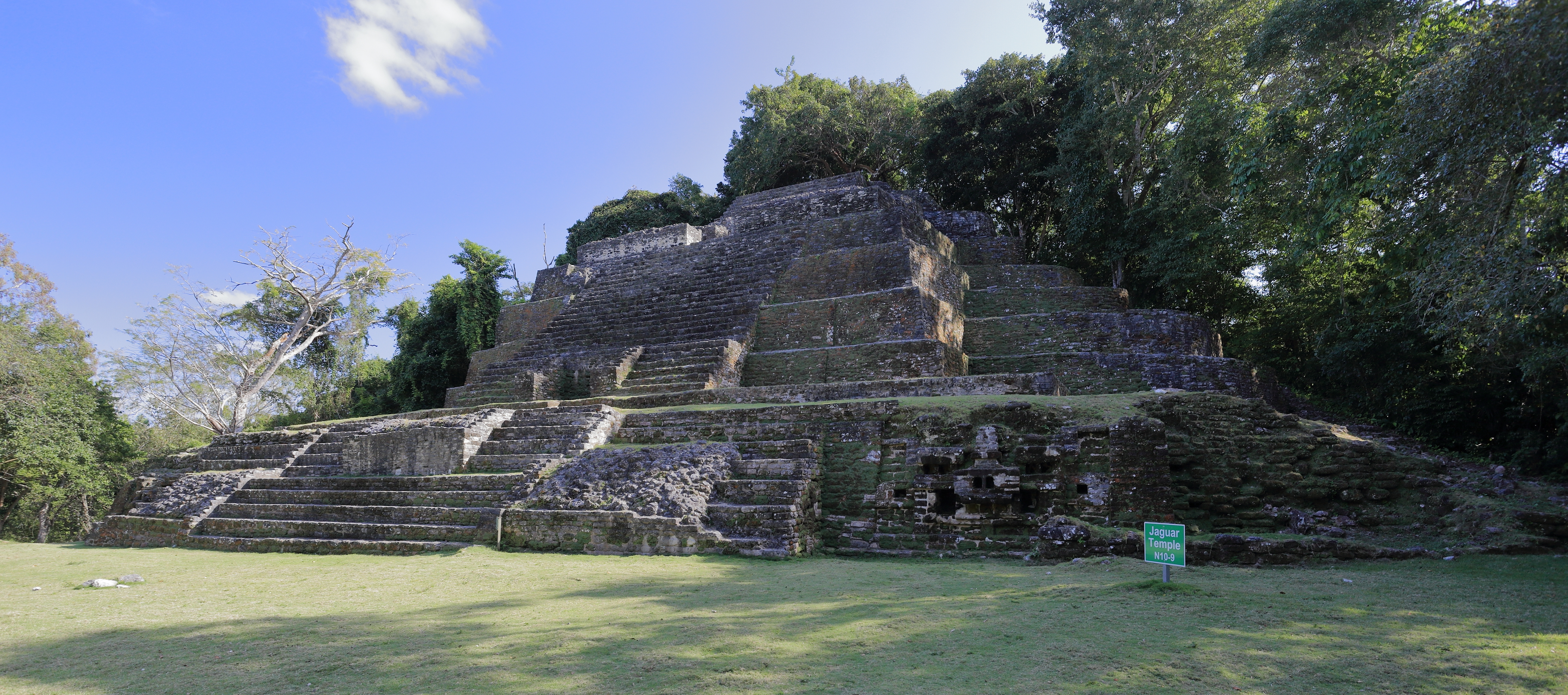 Lamanai - Jaguar Temple, March 2016